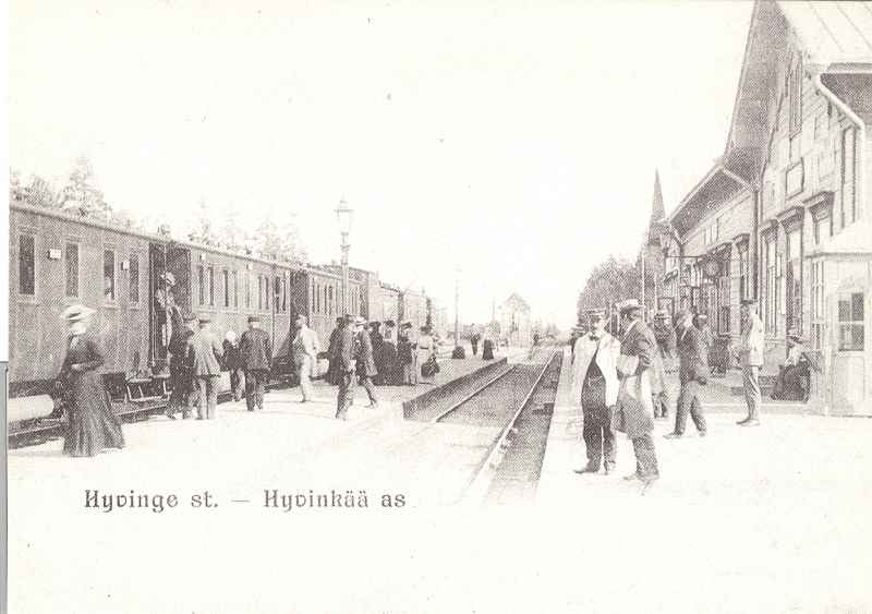 Railvay station of Hyvinkää in Finland